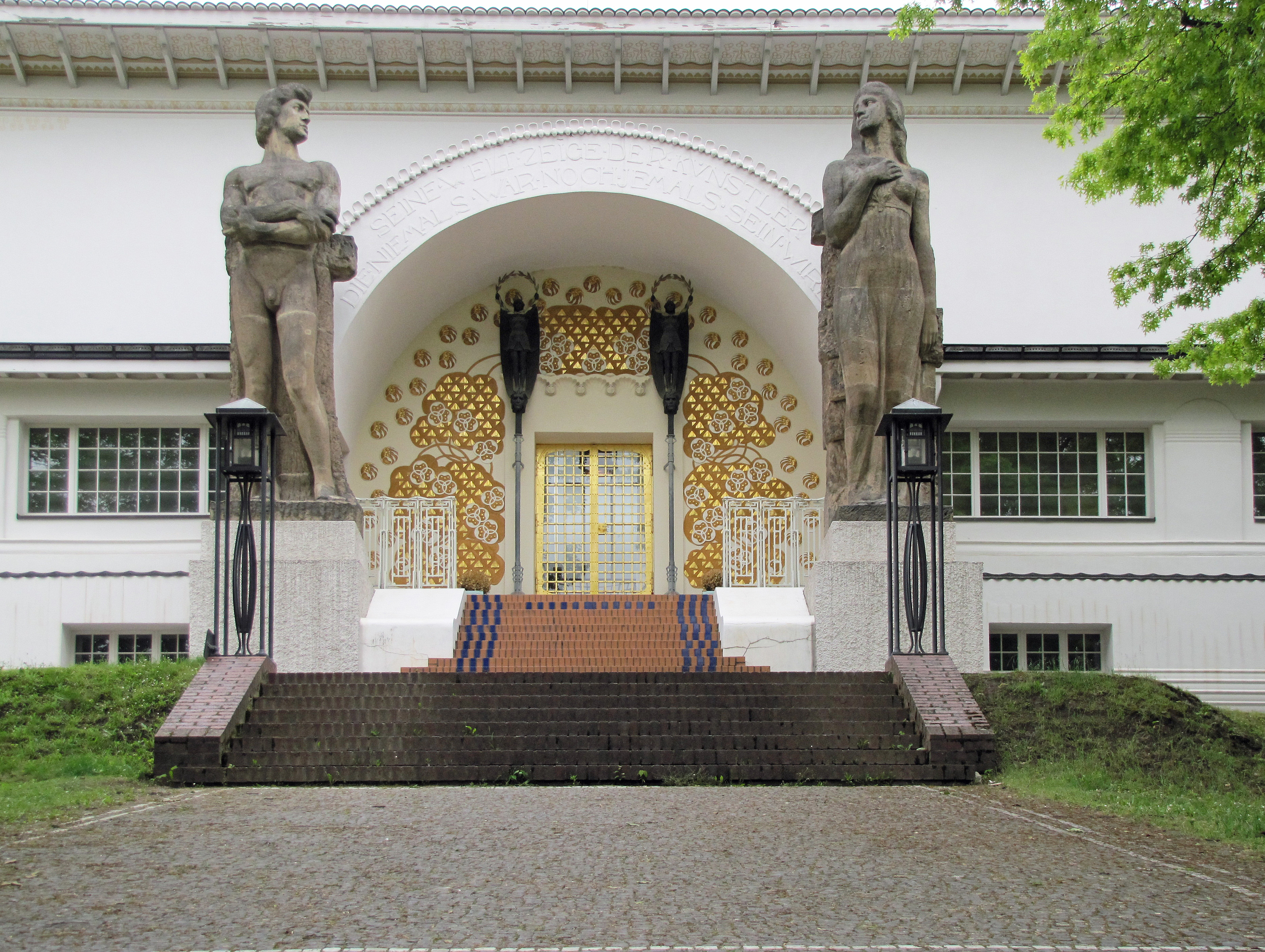 Portal of "Ernst-Ludwig-House" at "Mathildenhoehe" in Darmstadt, Hesse, Germany.